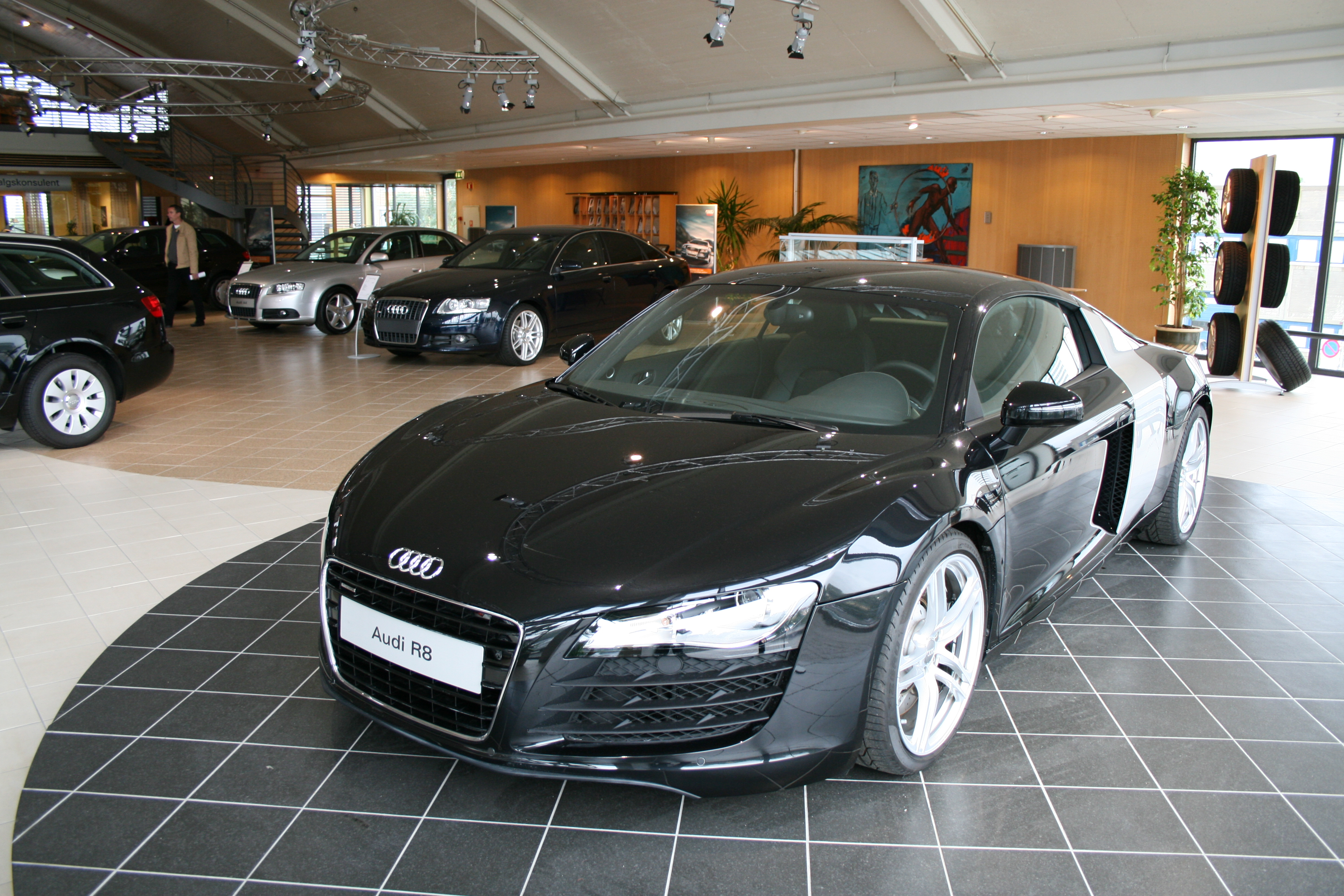 Picture of Audi R8